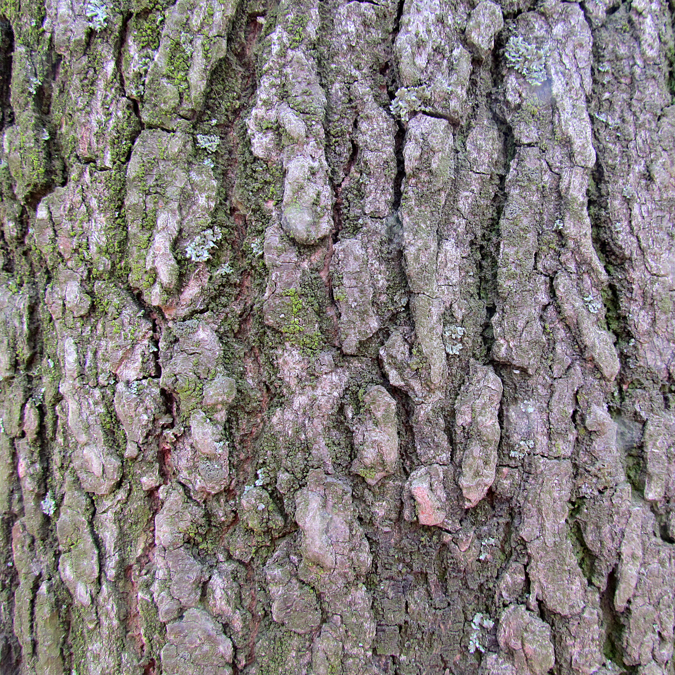 Liquidambar styraciflua bark